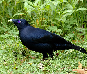 Bird, Satin Bowerbird, Ptilonorhynchus violaceus, male